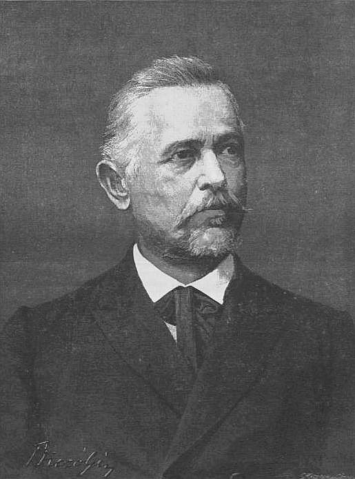 Portrait of Sándor Baksay